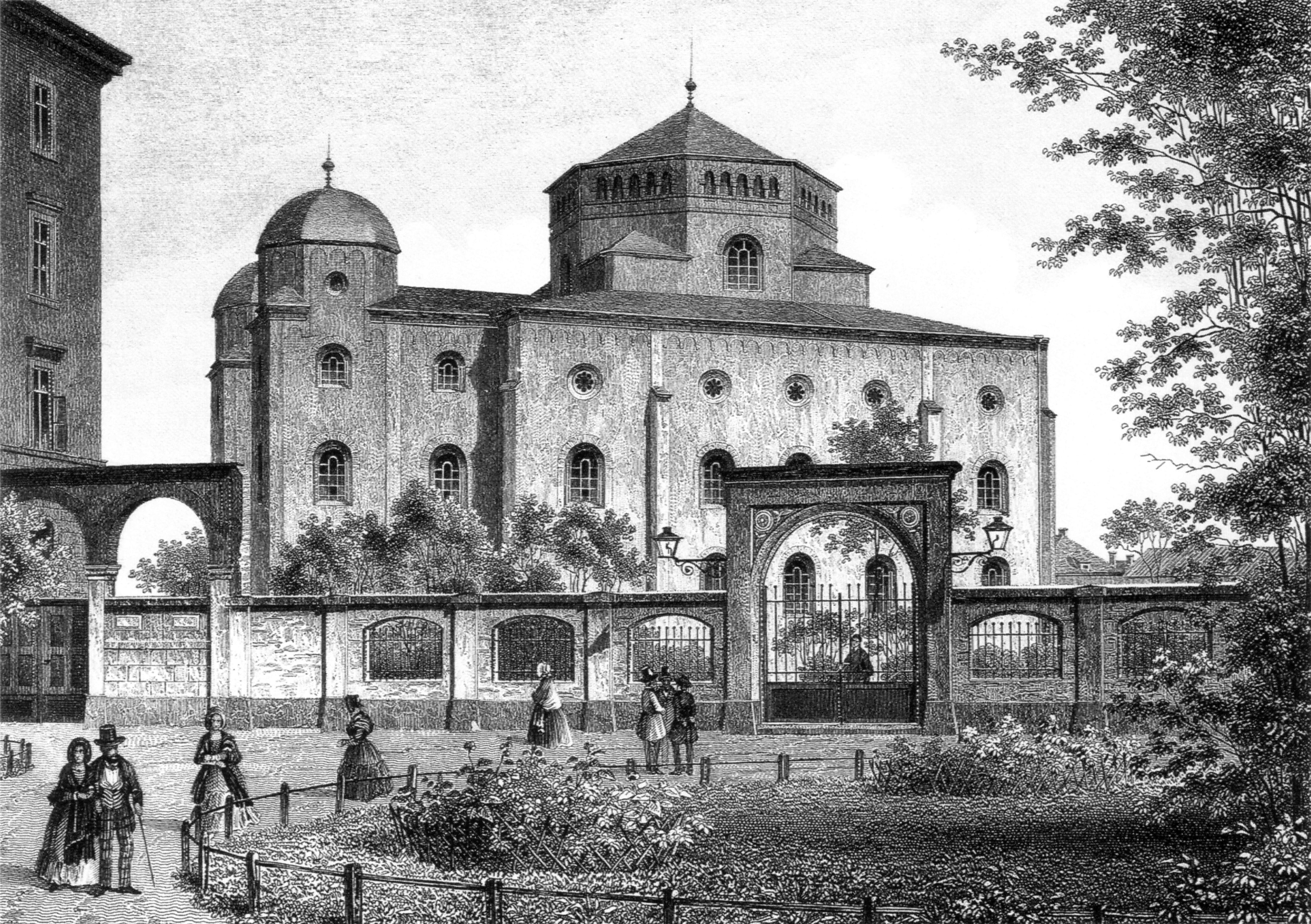 Dresden’s old Synagogue by Gottfried Semper (“Semper Synagogue”) build 1839 – 1840, destroyed 1938